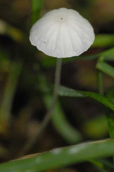 Hemimycena pithya from Commanster, Belgian High Ardennes .